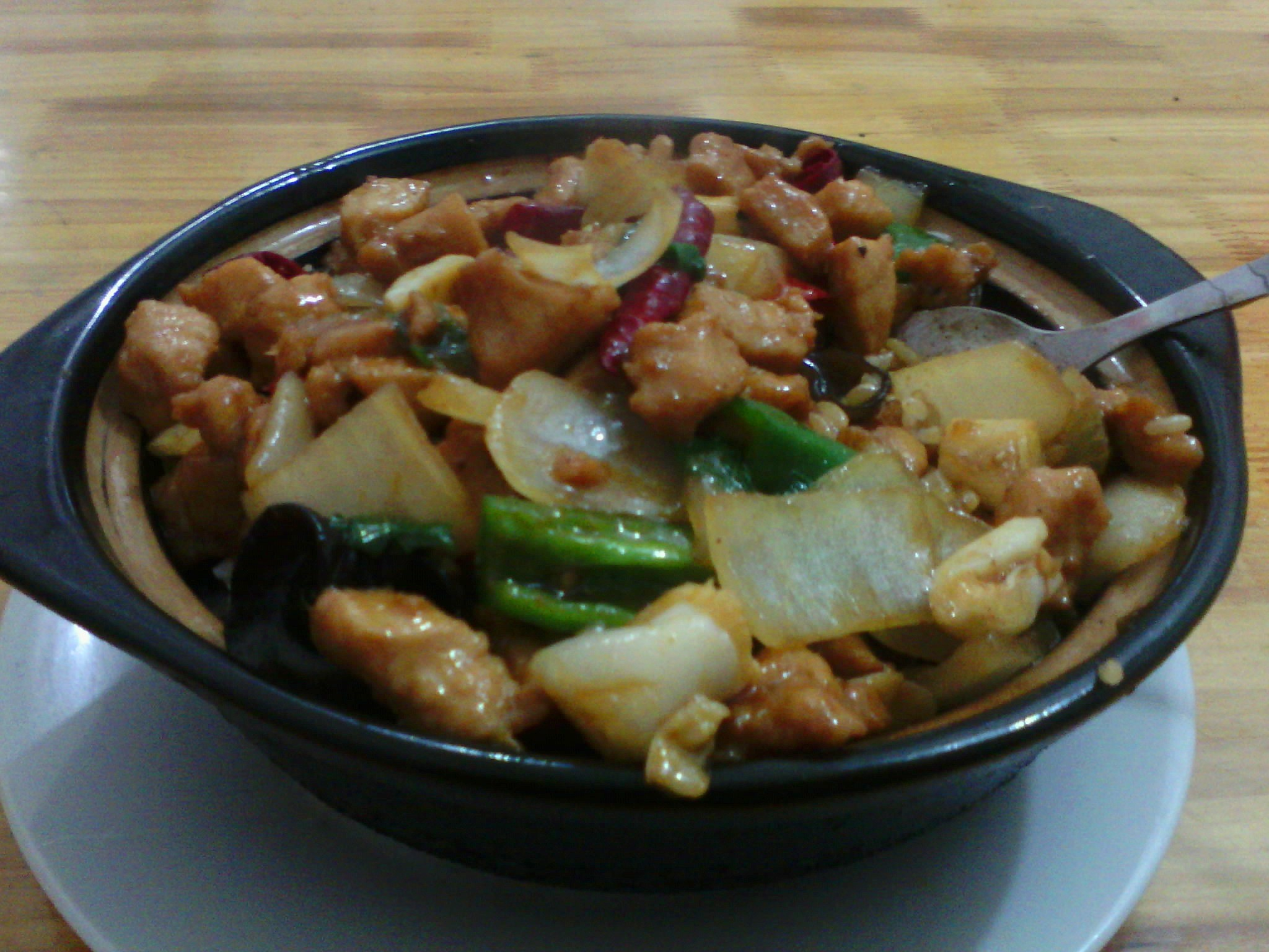 Gongbao Jiding (Kung Pao Chicken) Iron Pot, in Fuyang city, Anhui province, China. Gongbao Jiding is one dish from Chinese restaurants abroad that is authentic and reasonably close to the mainland dish.